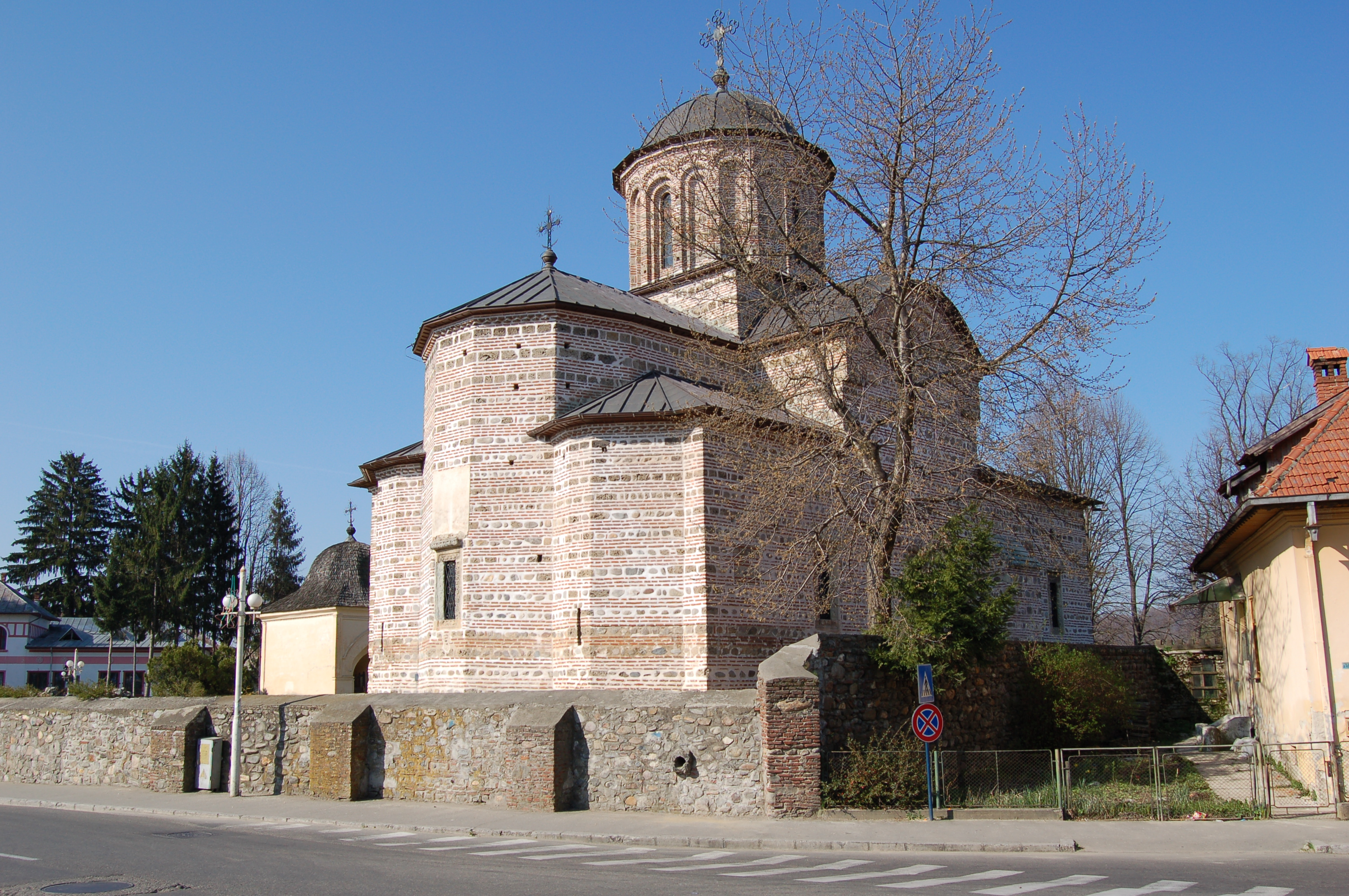 The Princely Church at Curtea de Arges. 01